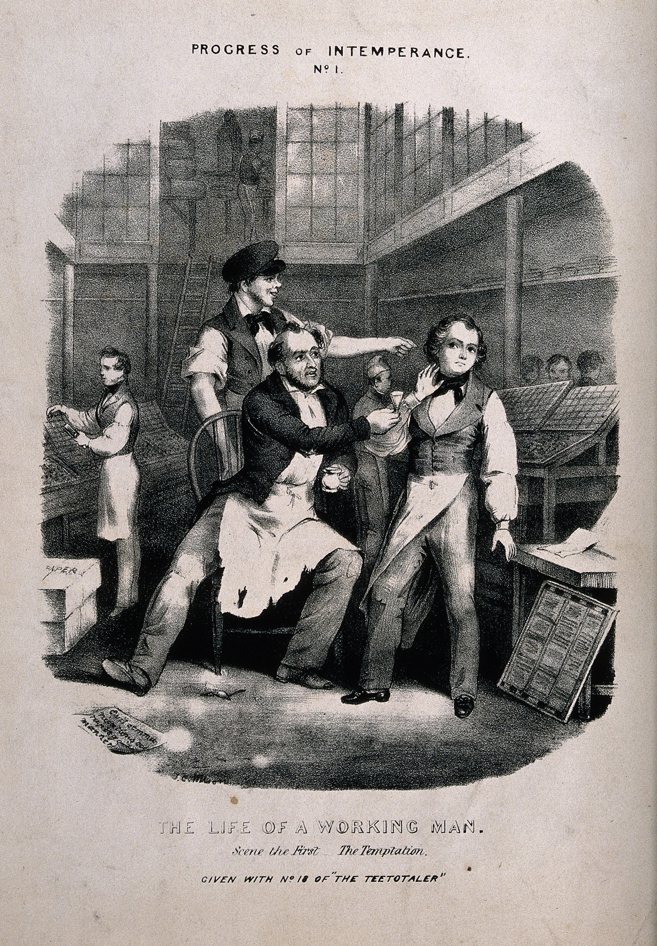 A young employee is tempted by a drink offered by his fellow workers. Lithograph, c. 1840, after T. Wilson. Iconographic Collections Keywords: T.C. Wilson